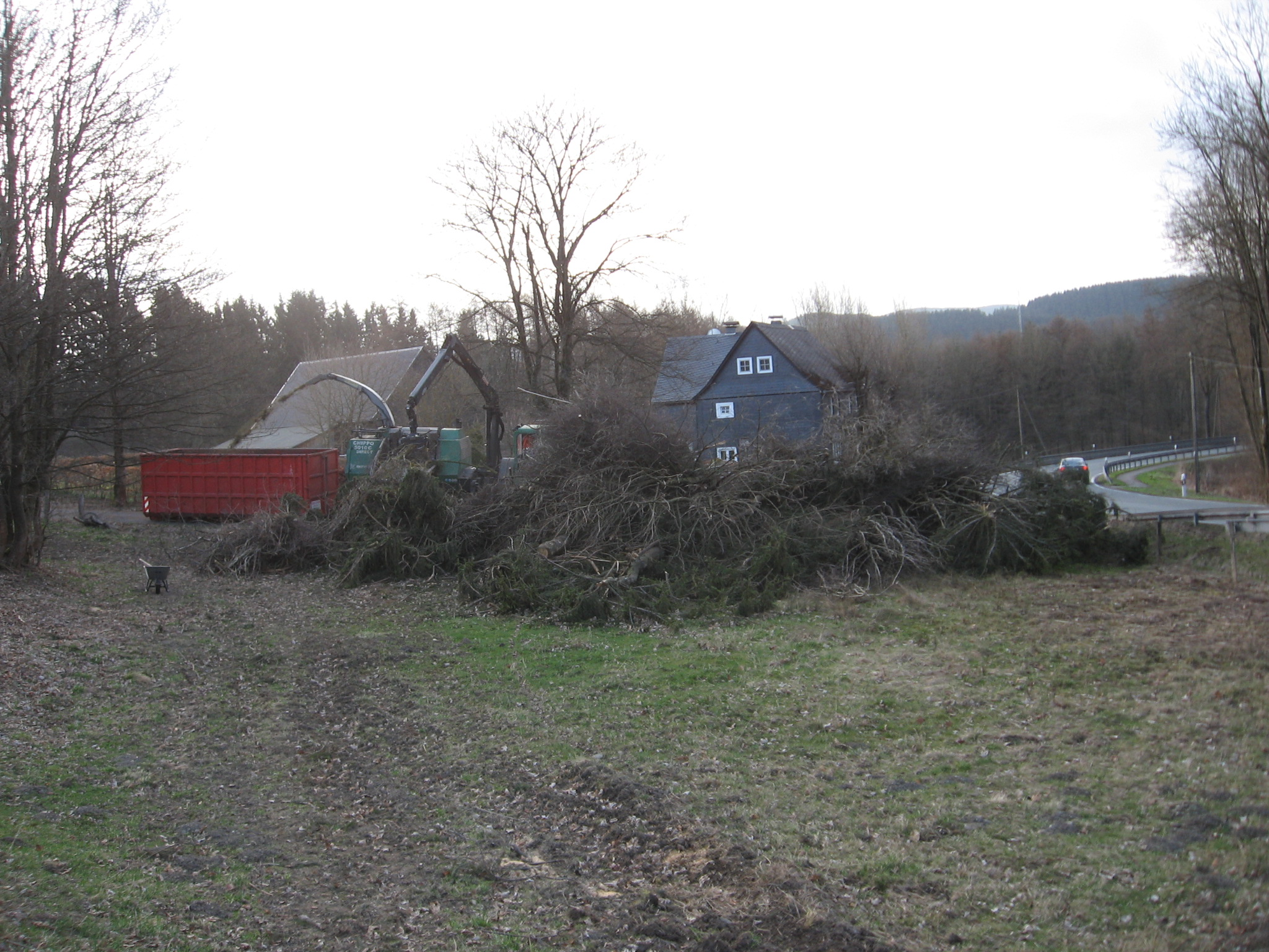 A forest woodchipper in the nature reserve "Vor'm Hängeberg" near Brilon-Petersborn, Germany. In the nature reserve, owned by the "Verein für Natur- und Vogelschutz", some pines and many bushes were cut down in the winter to open space for vegetation to establish.. The wood material was piled up on the edge of the nature reserve and later chopped.